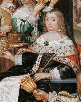 Elizabeth Charlotte of the Palatinate, electress of Brandenburg and Duchess of Prussia